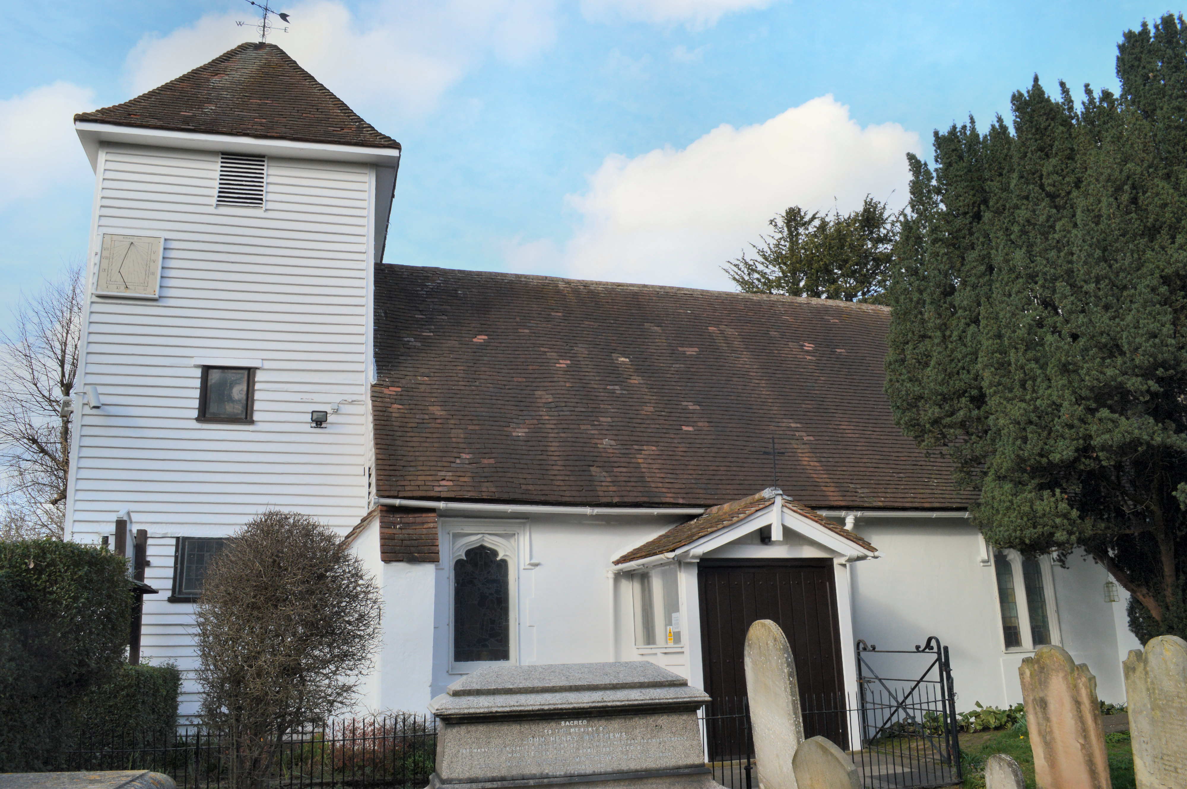 St Mary's Church, Perivale, view with porch